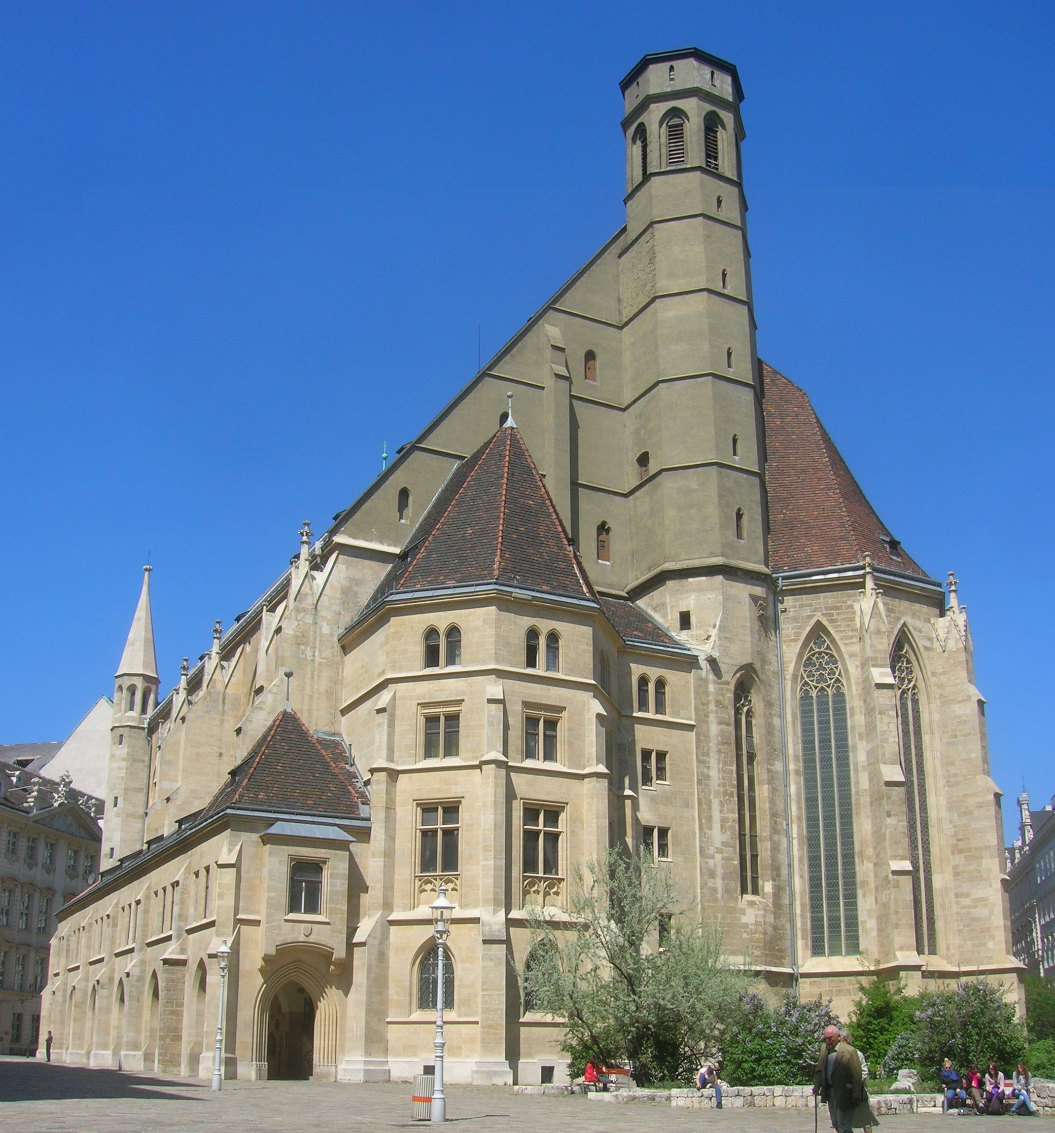 Minoritenkirche in the Innere Stadt in Vienna, Austria